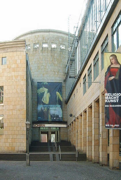 Schirn , a famous Art-Hall in Frankfurt/Main (Entrance), near Römerberg Kunsthalle Schirn